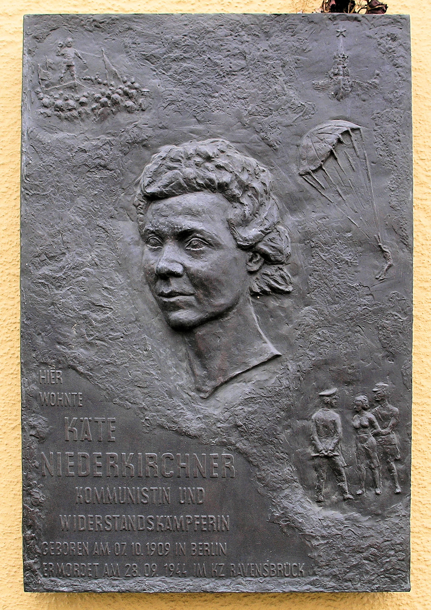 Memorial plaque, Käthe Niederkirchner, Pappelallee 22, Berlin-Prenzlauer Berg, Germany Koordinate:52°32′40″N 13°24′58″E / 52.54444°N 13.41611°E